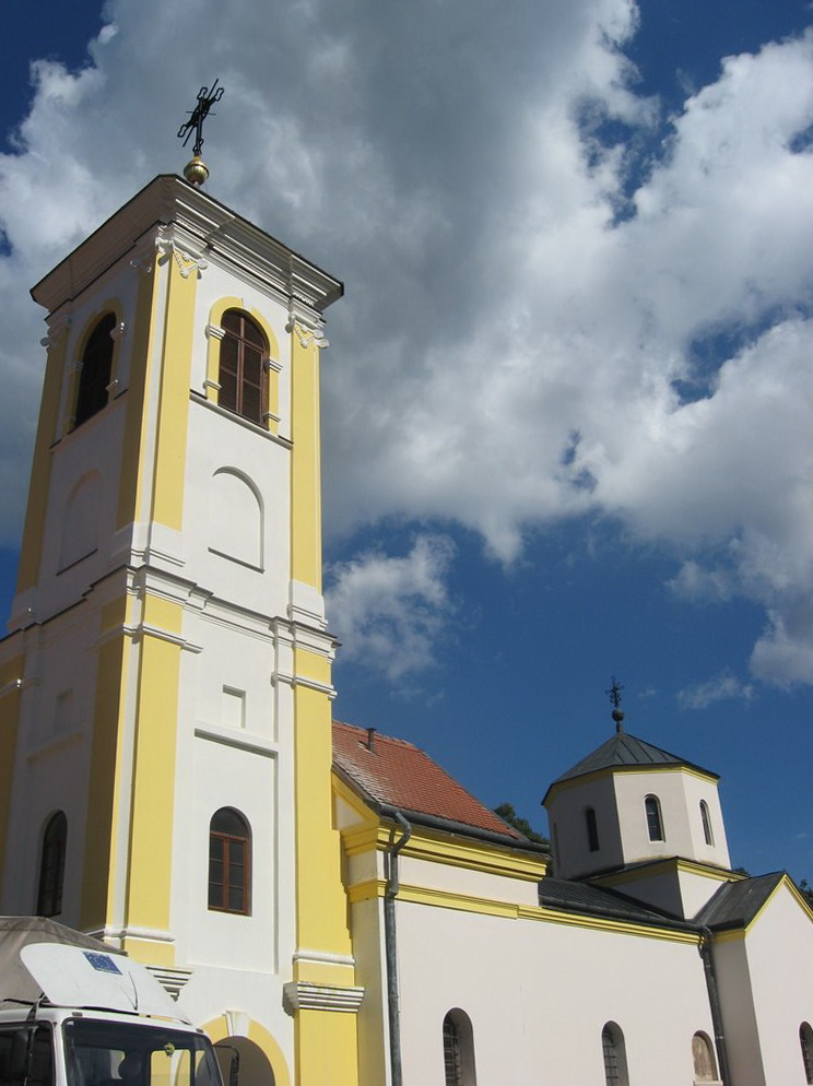 Orthodox Monastery Divsa